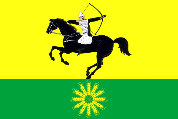 Tikhoretsk rayon (Krasnodar krai), flag